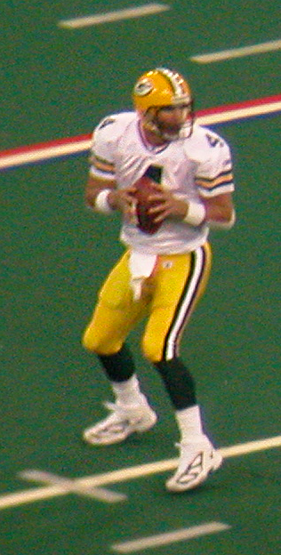 Brett Favre playing against the Colts in 2004.